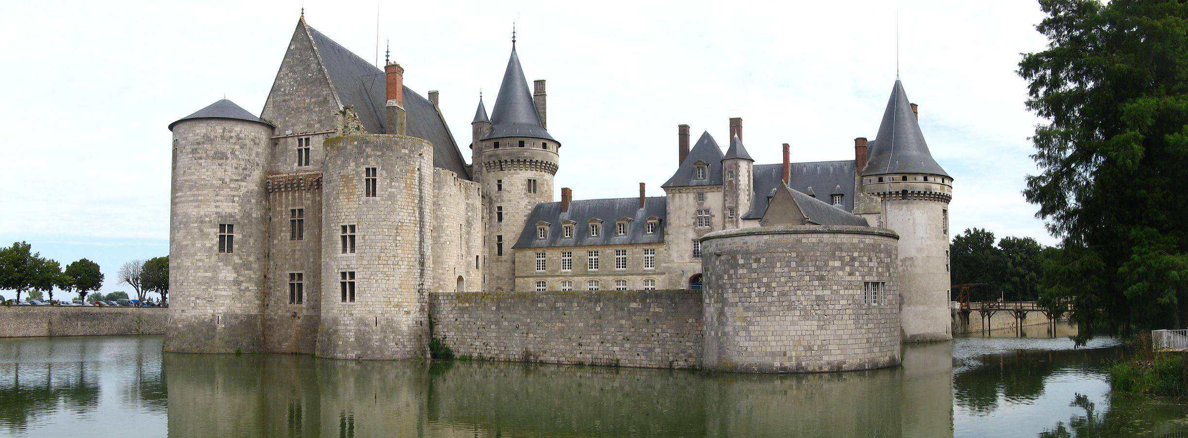 The château de Sully-sur-Loire, south-western aspect